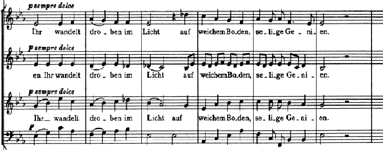 J. Brahms, Schicksalslied, Opus 54. Choral Excerpt 1.